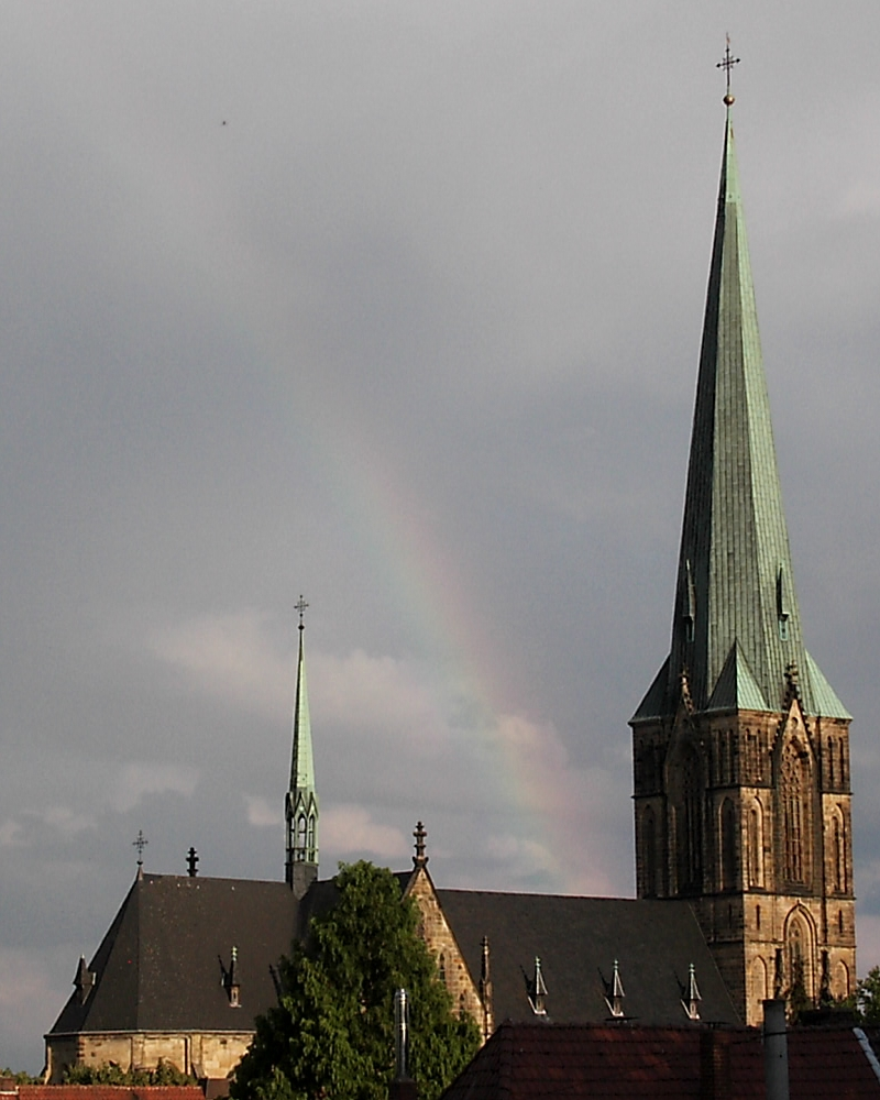 Herz-Jesu-Church in Münster (Westfalia), Germany